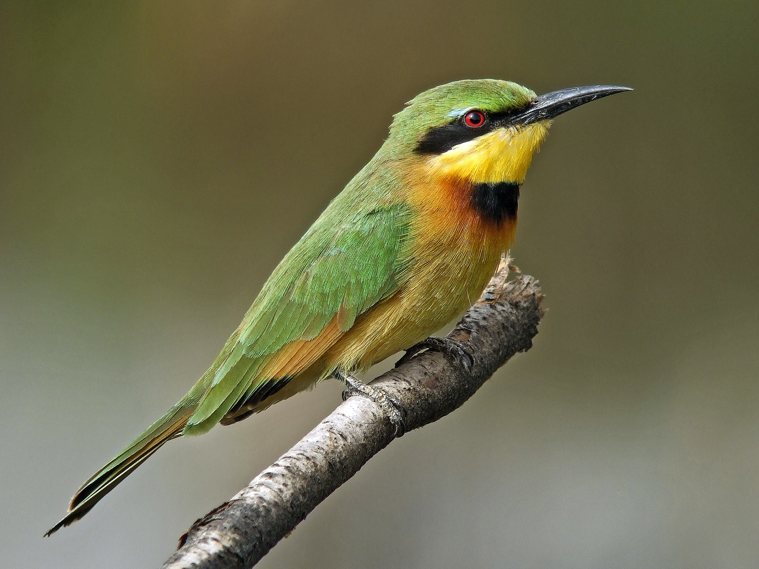 A Little Bee-eater in Djoudj, Senegal